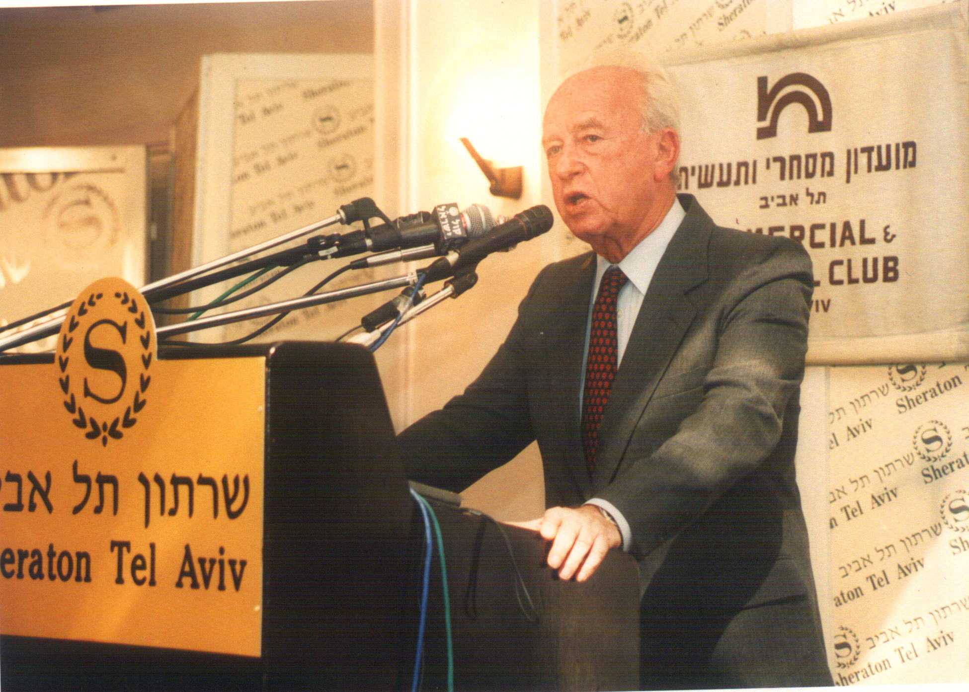 Ci-Club